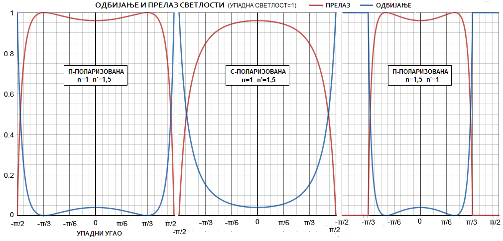 ОДБИЈАЊЕ И ПРЕНОС СВЕТЛОСТИ